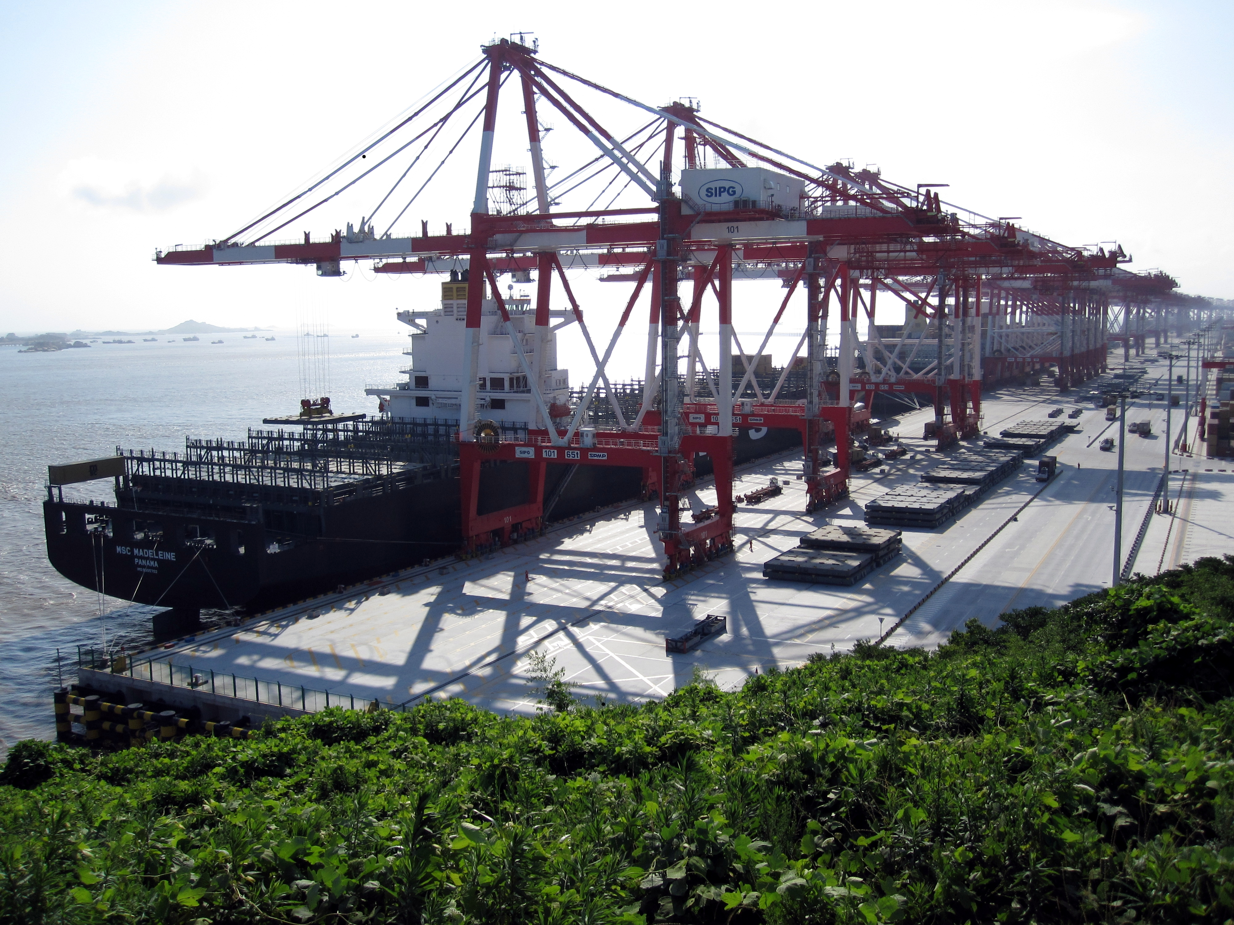 Self-made (plus white balancing), June 2009 MSC MADELEINE IMO Number: 9305702 MMSI Number: 353728000 Callsign: 3EFR7 Length: 348 m Beam: 43 m